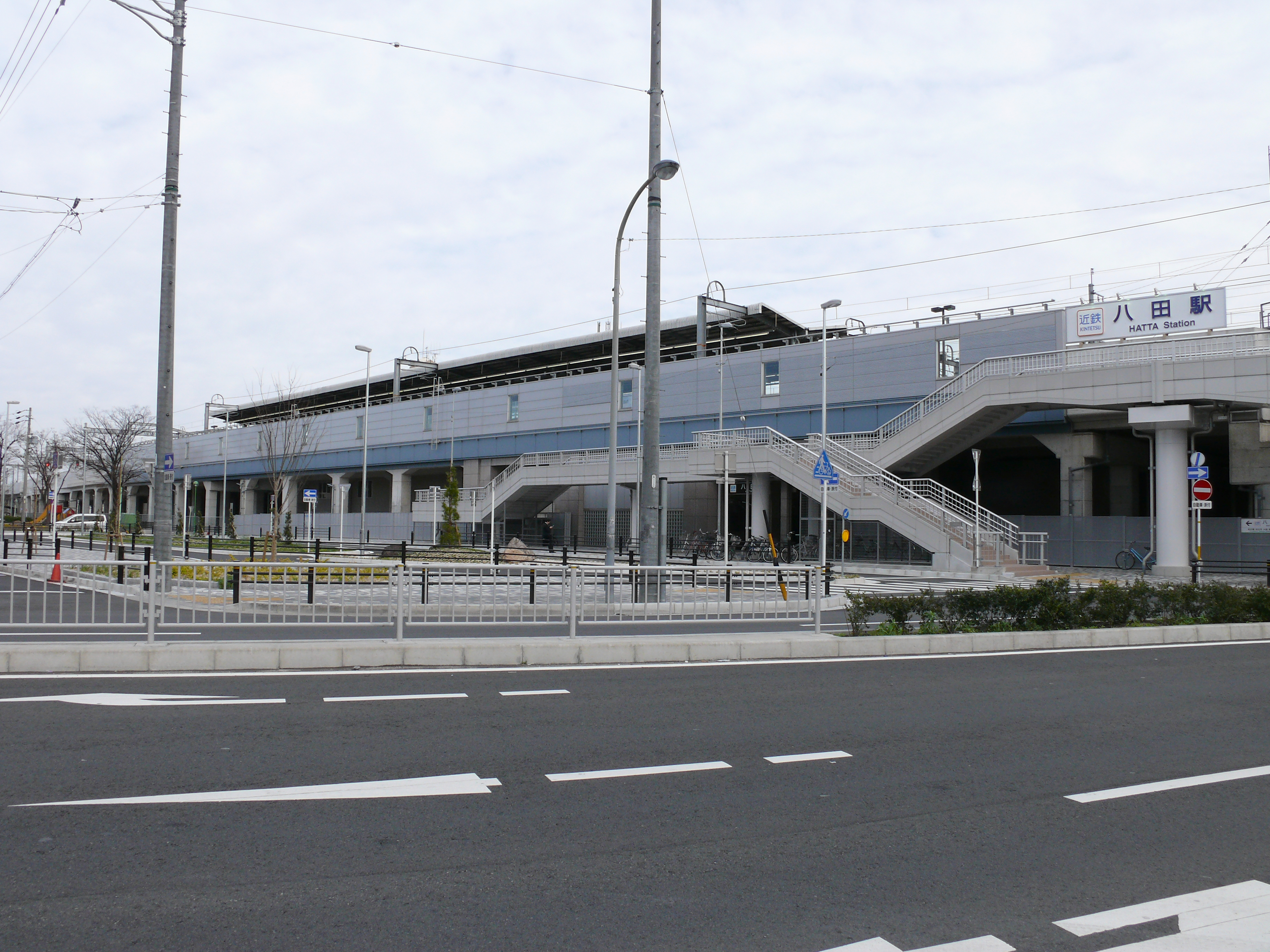 Kintetsu of Hatta Station.